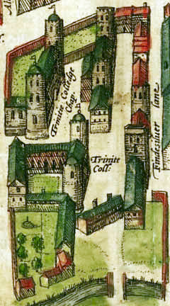 Crop of map of Cambridge dated 1575 showing Trinity College.